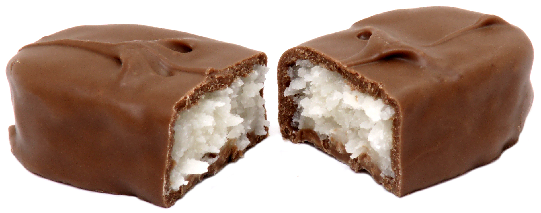 A Mars Bounty bar, split in half.